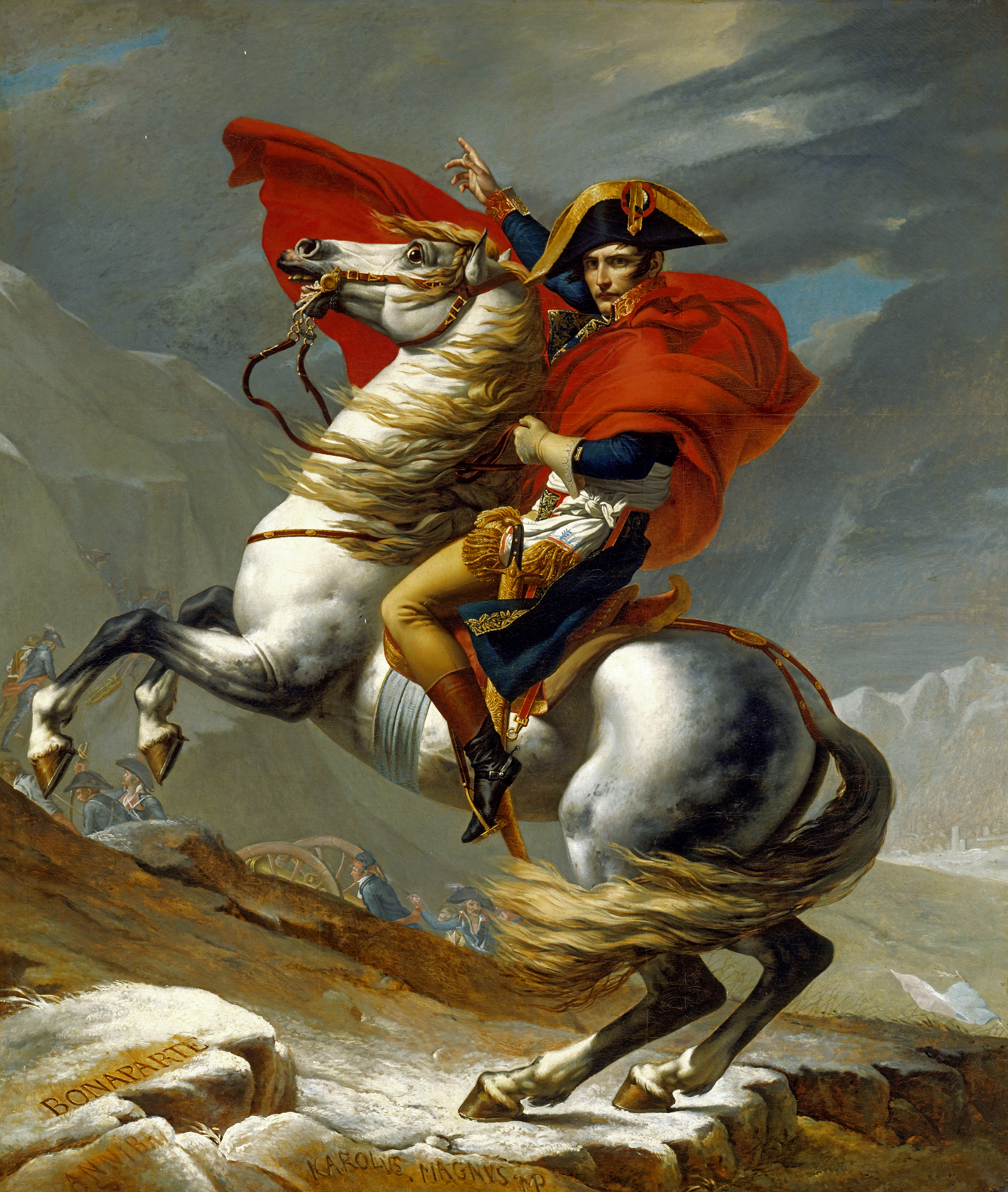 the horse is a dappled grey, the tack is identical to that of the Charlottenburg version, and the girth is blue. The embroidery of the gauntlet is simplified with the facing of the sleeve visible under the glove. The landscape is darker and Napoleon's expression is sterner.